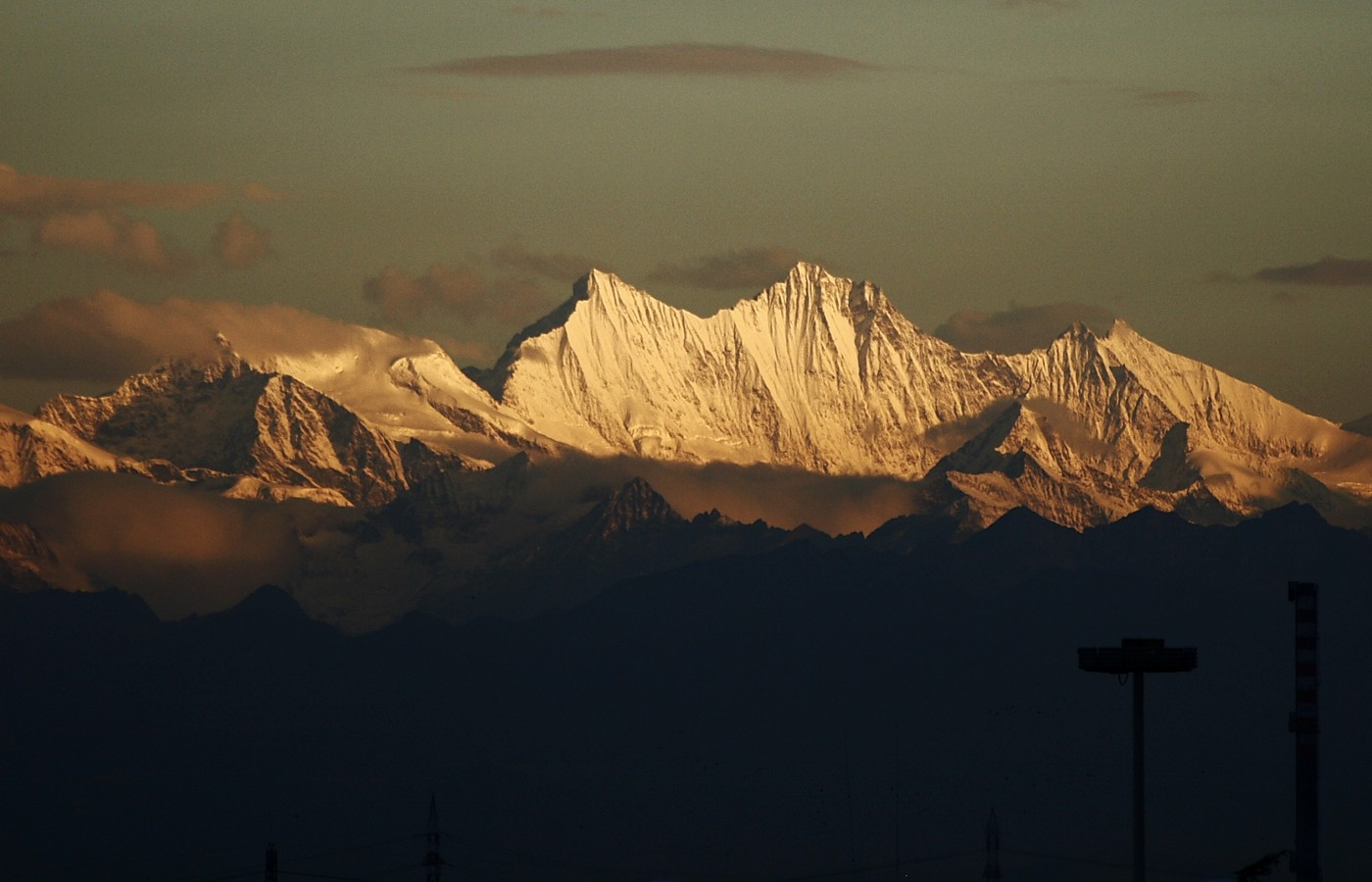 Mischabel range (Dom), from Milan